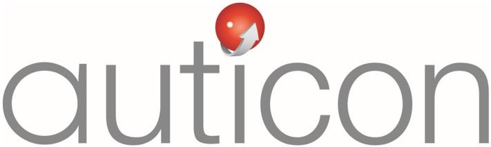 auticon Logo